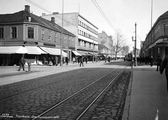 Olav Trygvasons gate in Trondheim, Norway